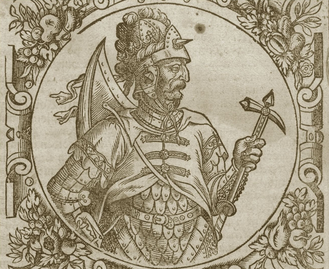 Vytenis, Grand Duke of Lithuania. The same image was used as Bolesław I Chrobry